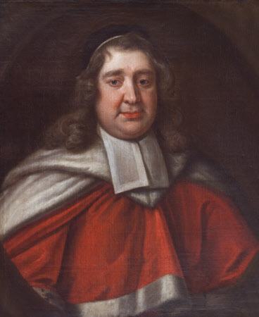 Sir Thomas Jones, Chief Justice of the Common Pleas